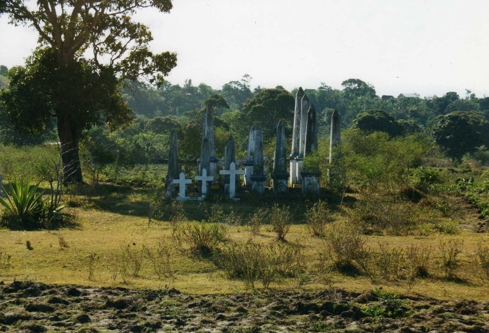 Southern Madagascar ... at the start of the Spiny Forest ... From Wikipedia - The Antanosy are a Malagasy ethnic group who primarily live in the Anosy region of southeastern Madagascar, though there are also Antanosy living near Bezaha, where they moved after the Imerina conquered Anosy. The Antanosy speak a dialect of the Malagasy language, which is a branch of the Malayo-polynesian language group derived from the Barito languages, spoken in southern Borneo. Of the 18 ethnic groups in Madagascar, the Antanosy are among the smallest in both population and geographical range. Just 362,000 Antanosy exist in a country of 16.5 million, thus making up a mere 2% of the total population (Ministerio de Educatión 2003). Located in the far southeastern region of Madagascar, the majority of Antanosy people are subsistence farmers living in small, rural villages. They rely on the harvests of rice and manioc and forest products such as honey, wild game, roof thatch, fruit, and reeds to consume or sell at weekly regional markets. The ancestors of today's Antanosy migrated from the north about 150–200 years ago. According to MAEP (2003), they are divided into three groups in the region: - The Antavaratra Region of Manantenina (an alliance between Antanosy & Antaisaka). - Those occupying the Antambolo Valley in the region of Ranomafana and Enaniliha, - The Antatsimo who live in the southwest region of Anosy, from Ranopiso to the Mandrare river. There are 5 sub-ethnic groups of the Antanosy people: the Tesák, Ivondro, Tevatomalama, and Terara Temanalo.